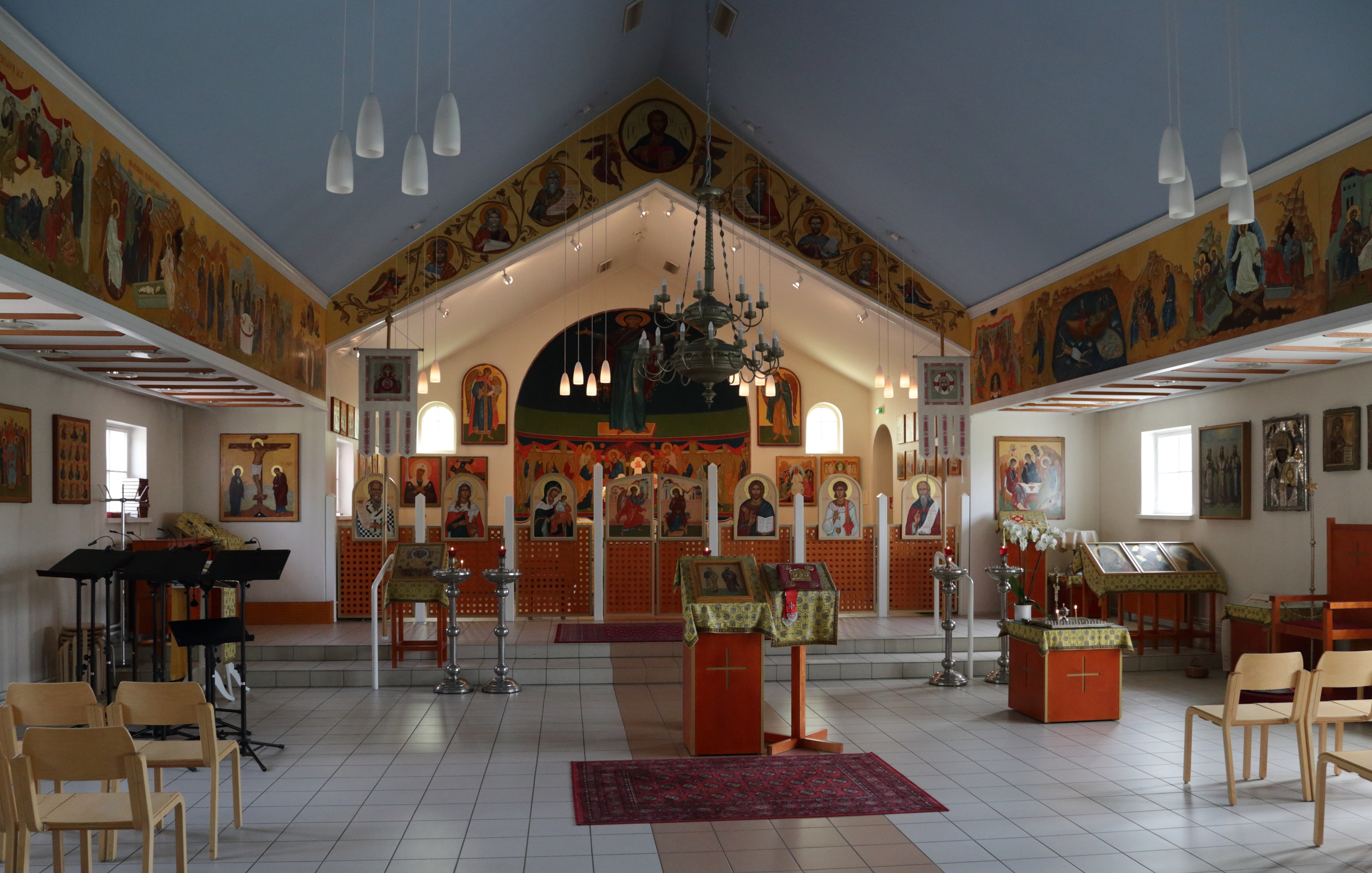 Interior of the Holy Trinity Cathedral in Oulu.